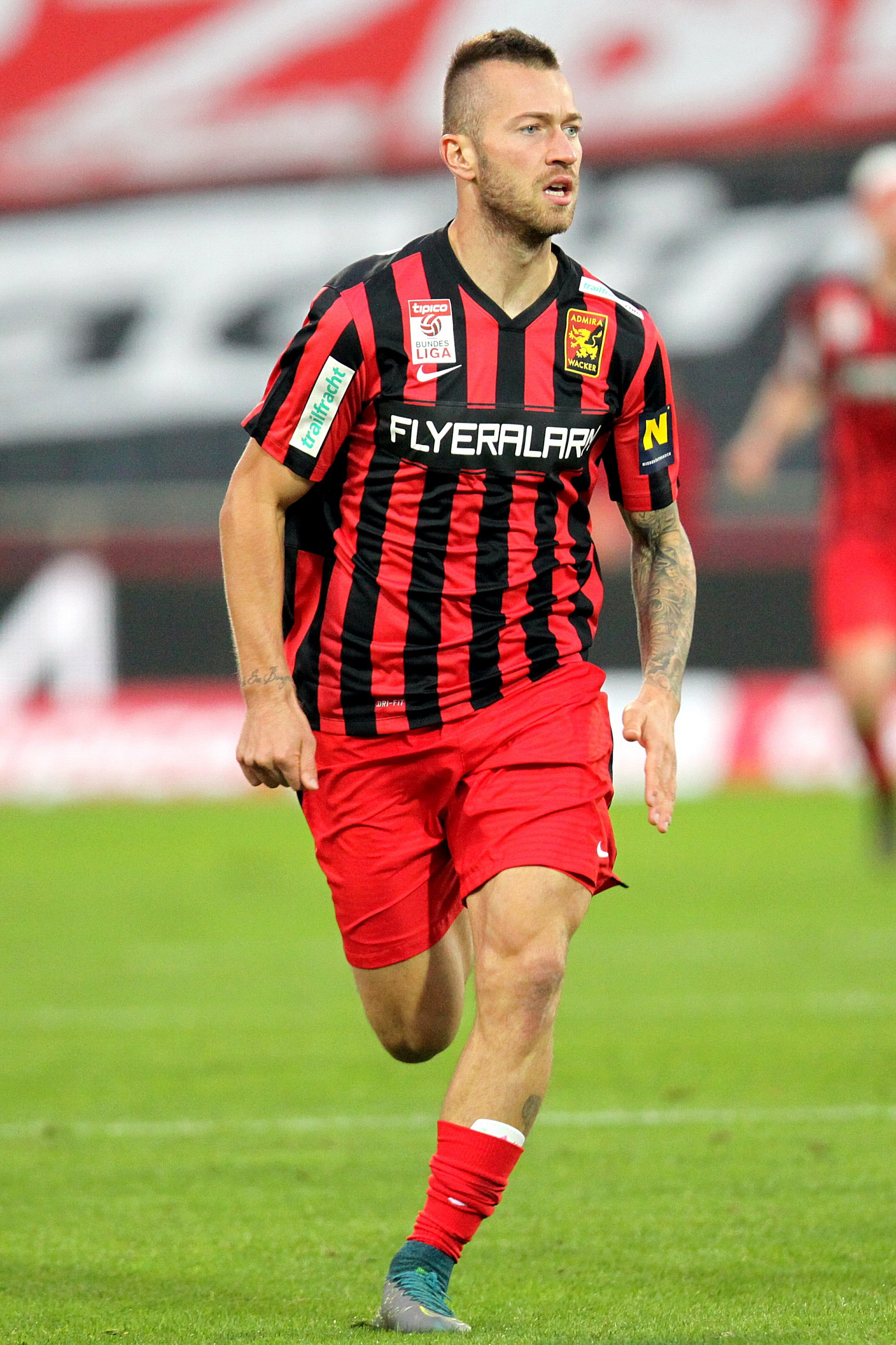 Match of the Austrian Football Bundesliga – FC Admira Wacker Mödling (red shirts) vs. SK Sturm Graz (white shirts) 0-1 (0-0) on 2015-09-27 in Bundesstadion Sudstadt – The photo shows Peter Zulj